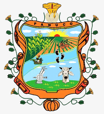 logo city